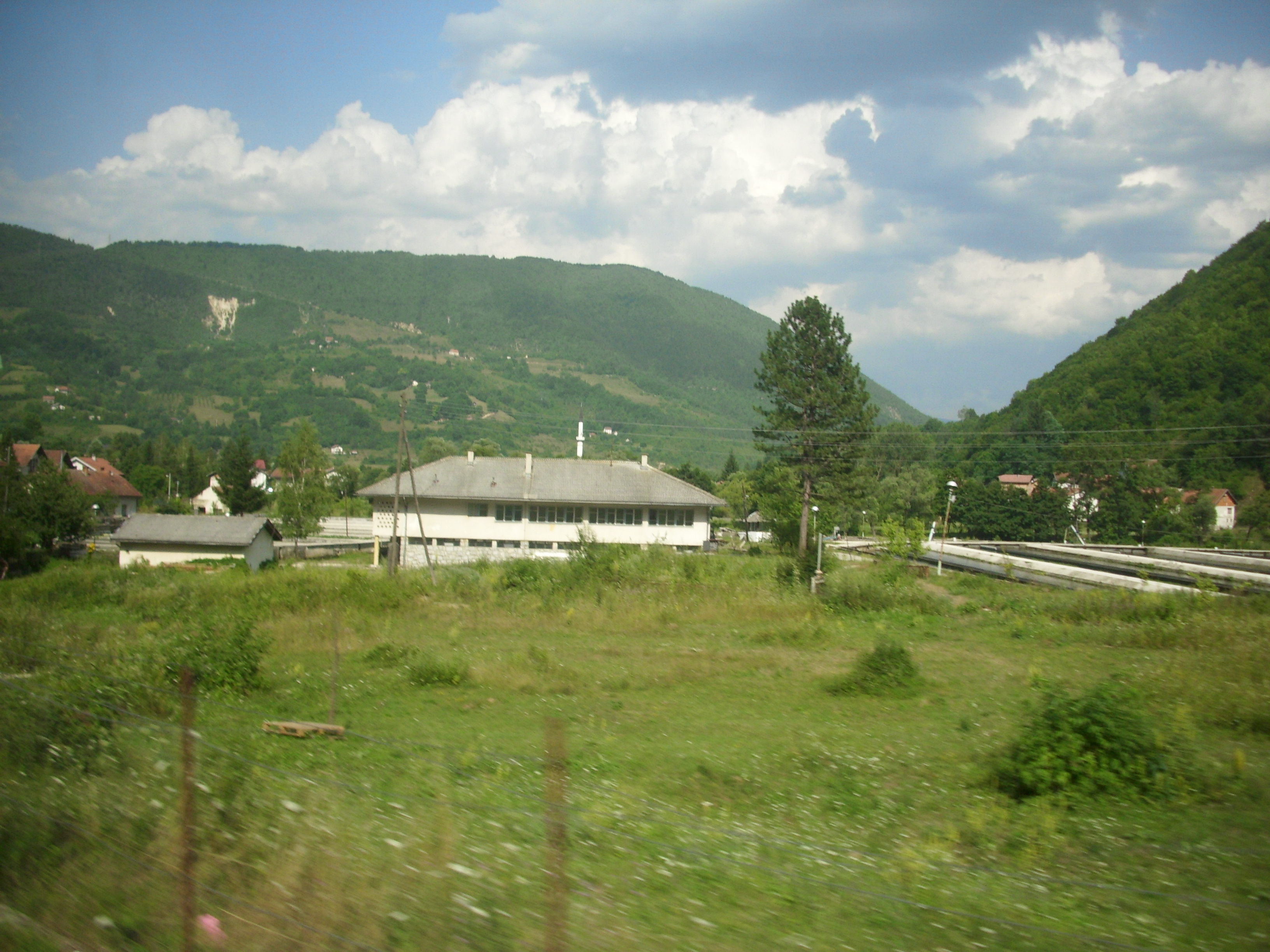 Jezero